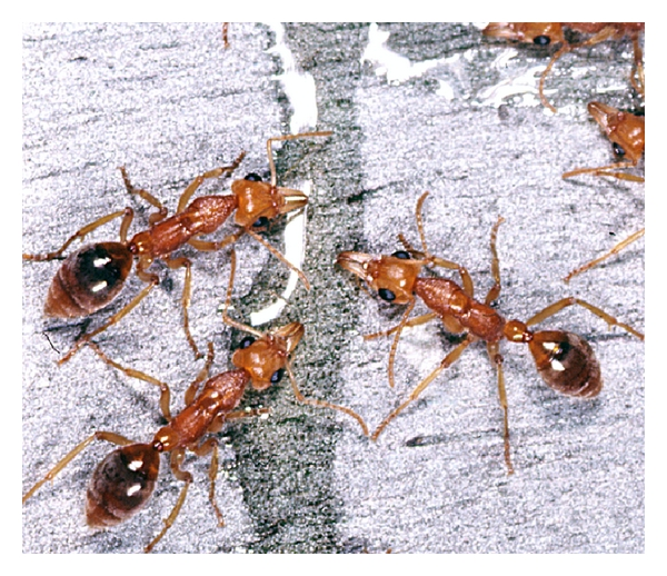 Nothomyrmecia macrops feeding on honey bait